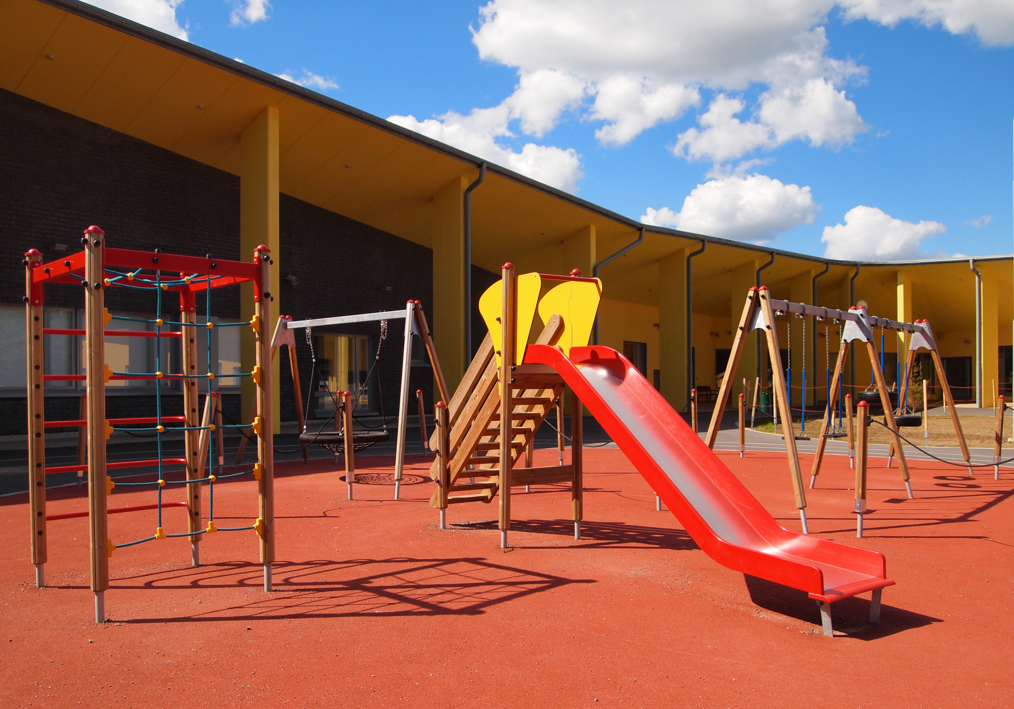 Playground on the yard of the school in Huhtasuo, Jyväskylä.